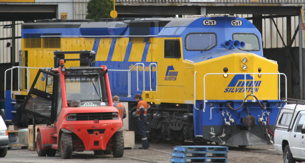 Victorian C class diesel locomotive now with Silverton Rail and renumbered Cs1